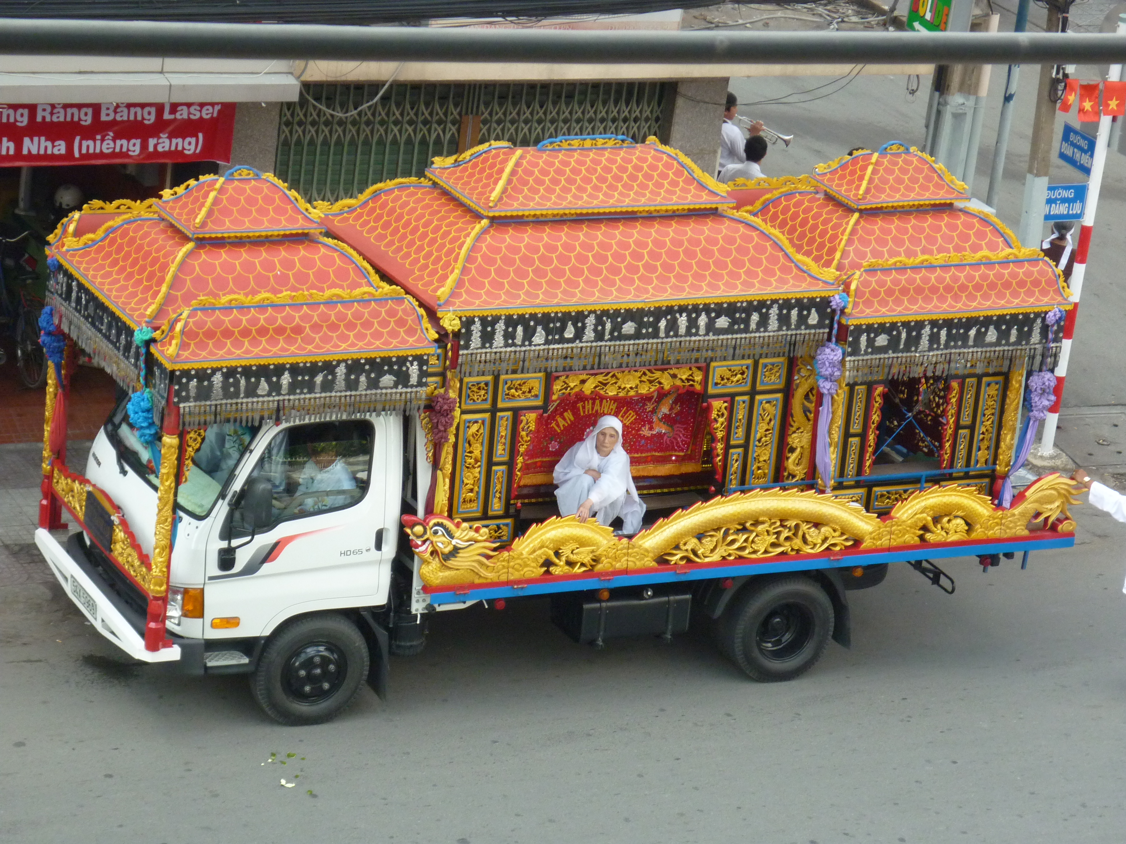 A kind of Vietnamese hearse is going to the crematorium